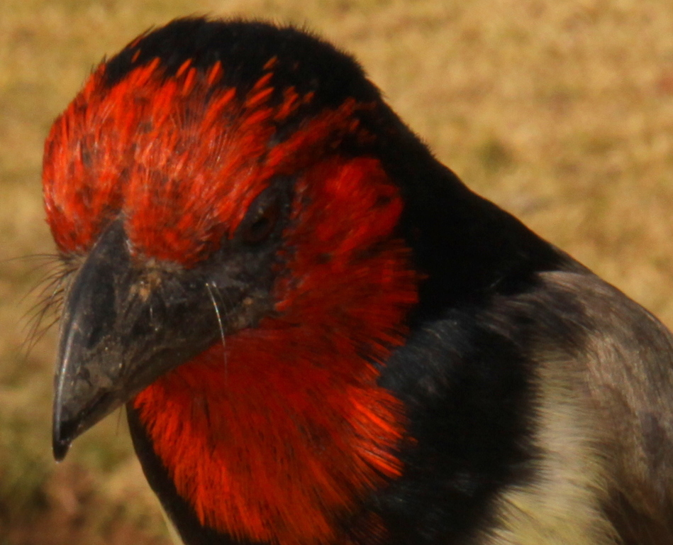 Black collared barbet